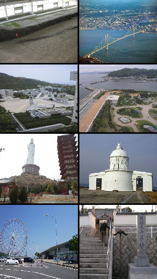 Awaji montage